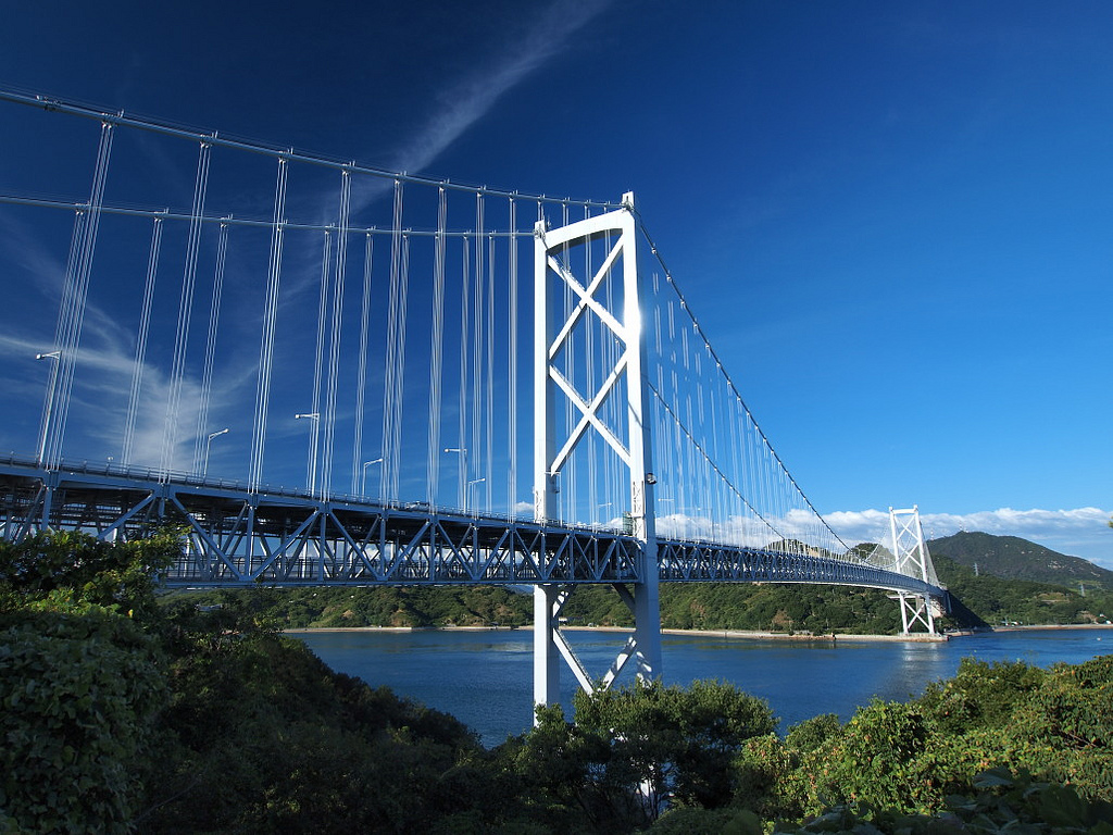 The Innoshima Bridge connects Mukaishima with Innoshima in Hiroshima Prefecture in Japan